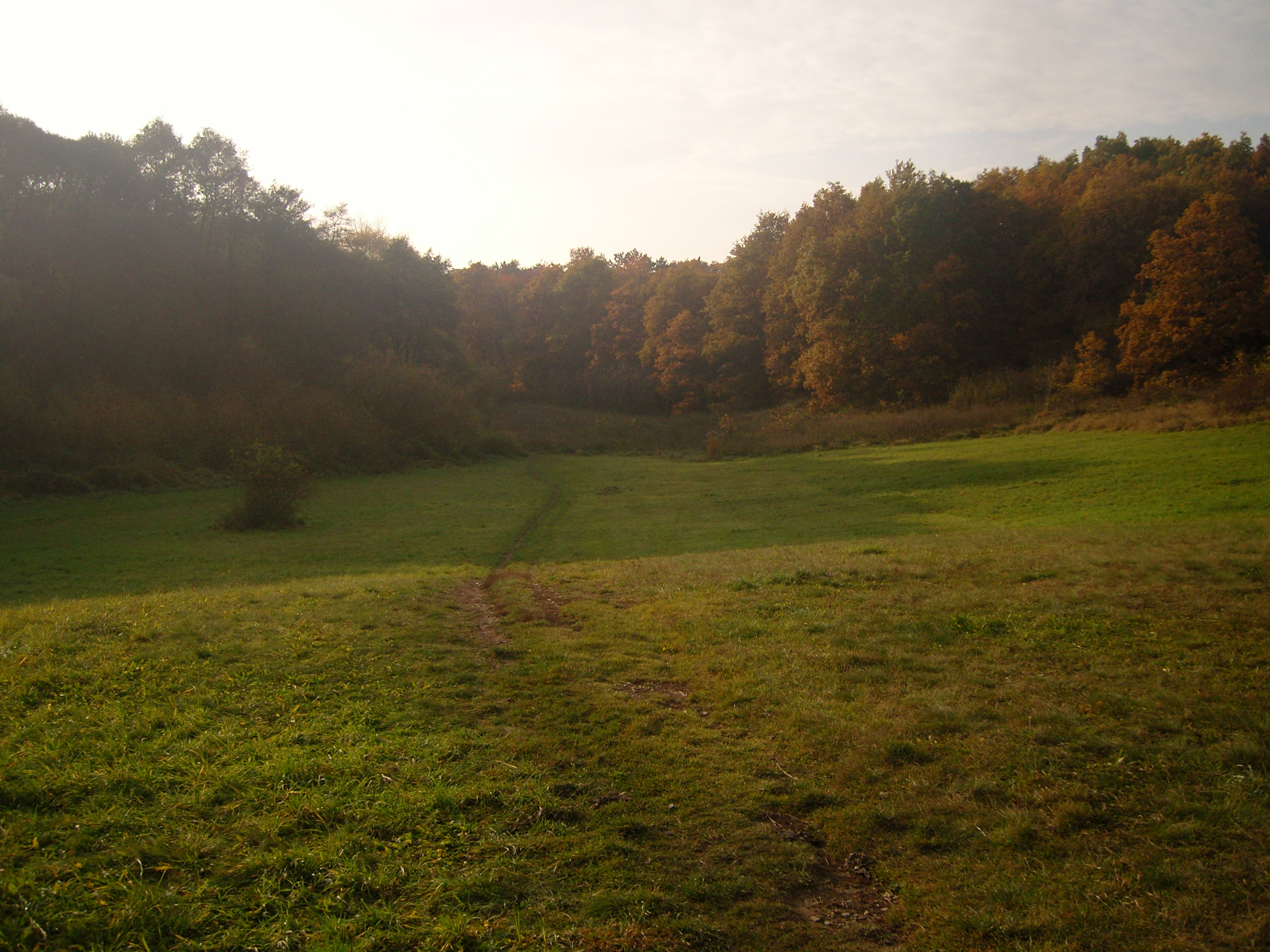 Natural protected site called Pitkovická stráň, near Prague